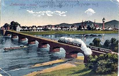 Picture postcard ca. 1900, Ladenburg, Germany.